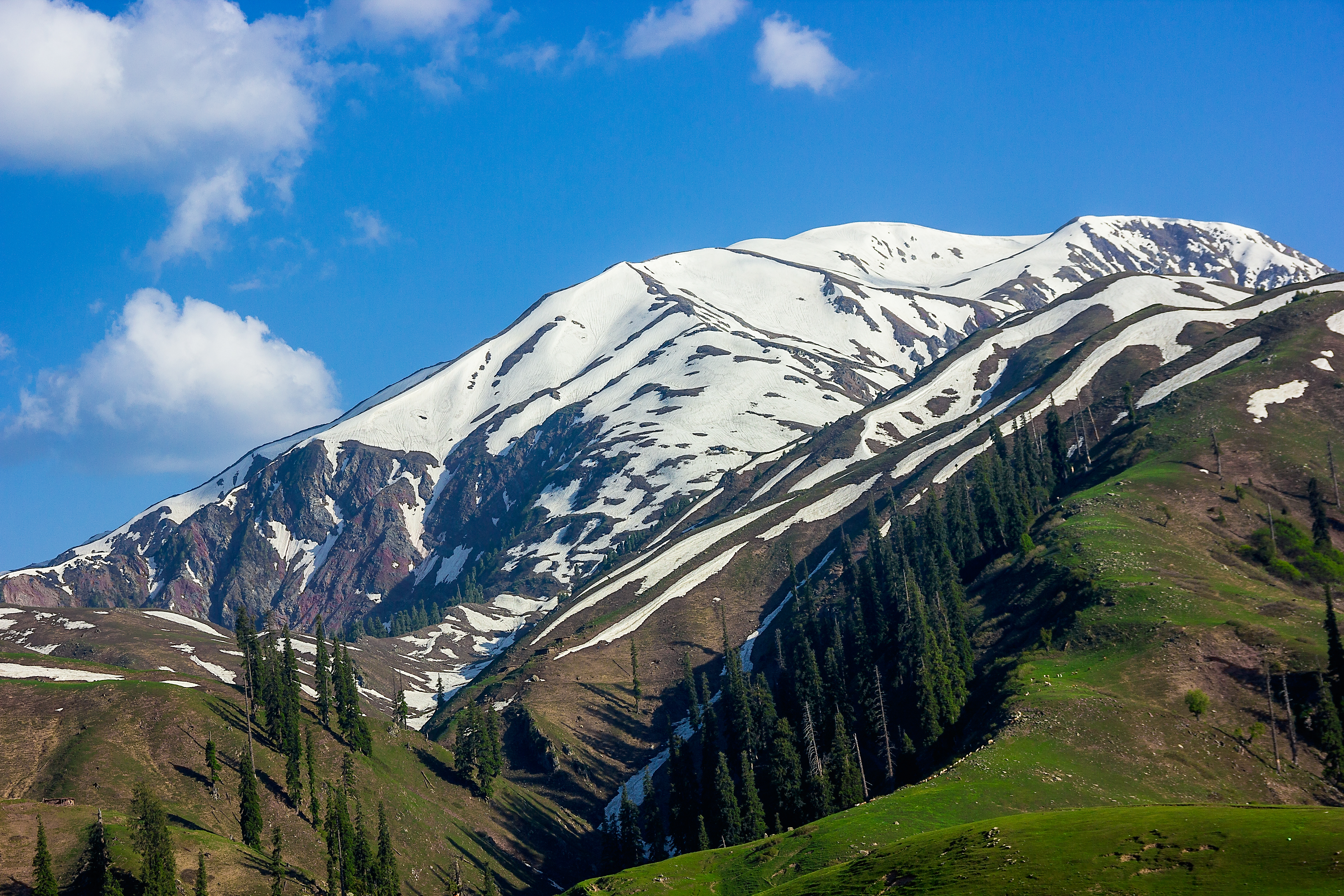 View of Makra Peak from Payee Meadows, Shogran, KPK, Pakistan